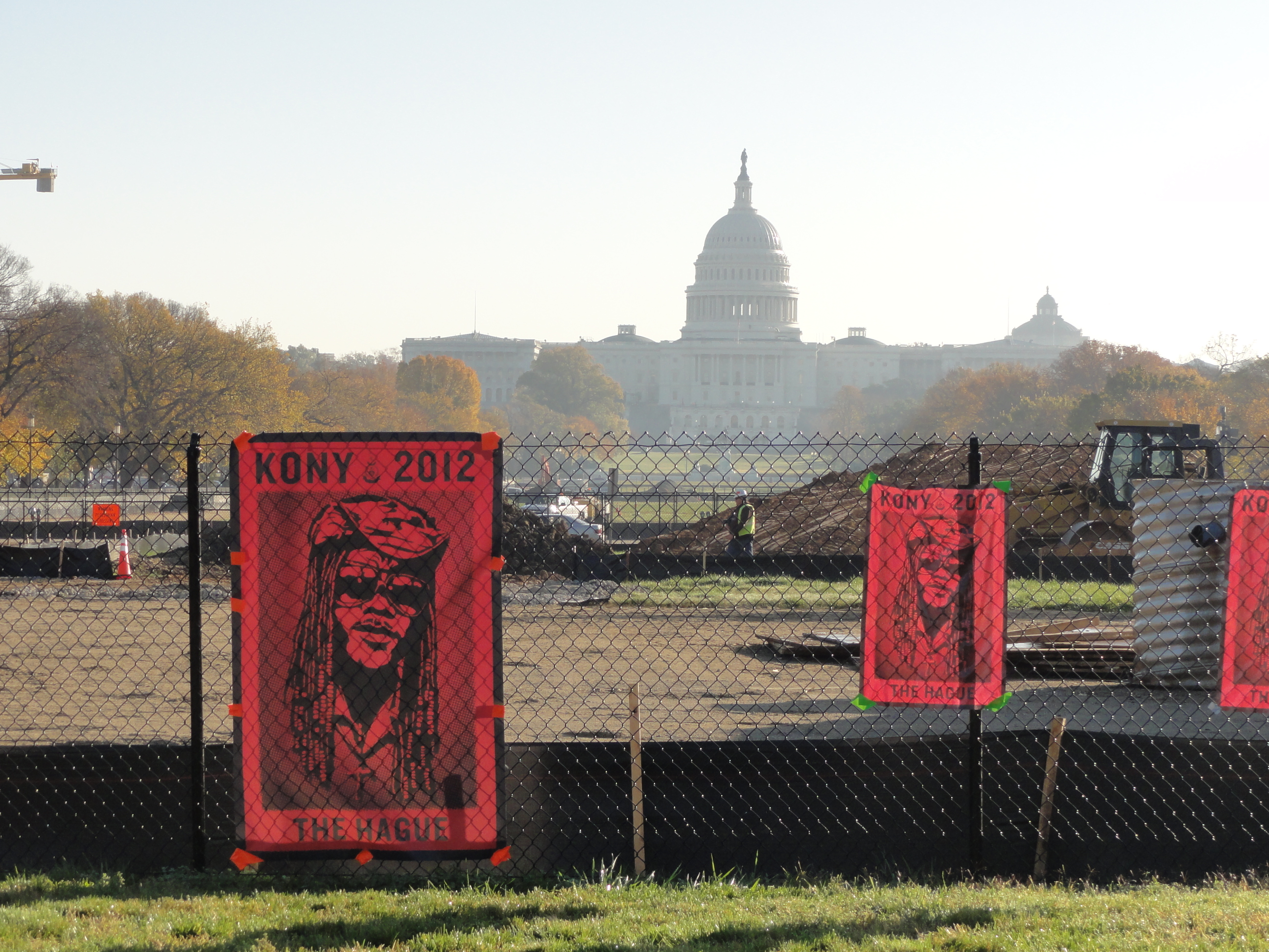 Kony 2012 posters on a Washington, DC fence, viewed from the National Mall looking east towards the Capitol